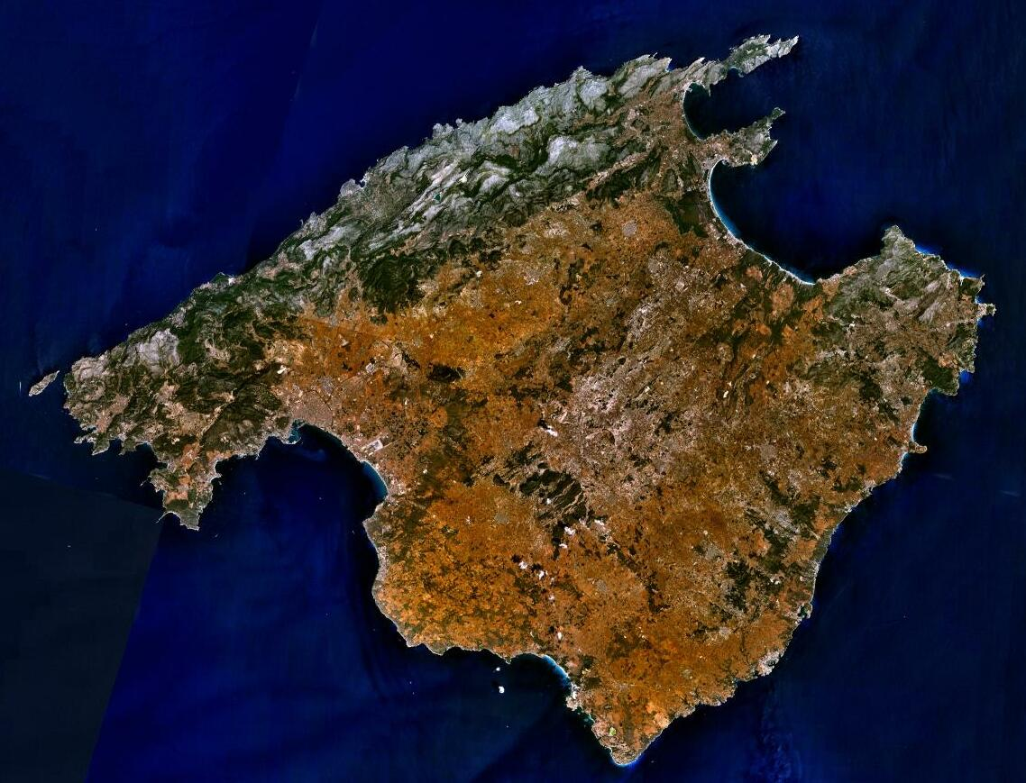 Sattelite image of Majorca